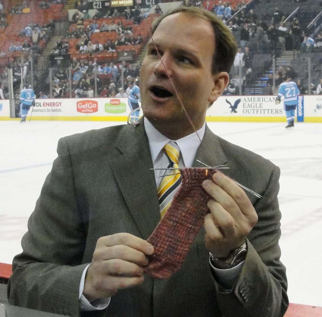 Dan Potash poses with the Knitting Lady's knitted sock before a game between the Pittsburgh Penguins and Dallas Stars, March 6, 2010 at Mellon Arena in Pittsburgh, PA.